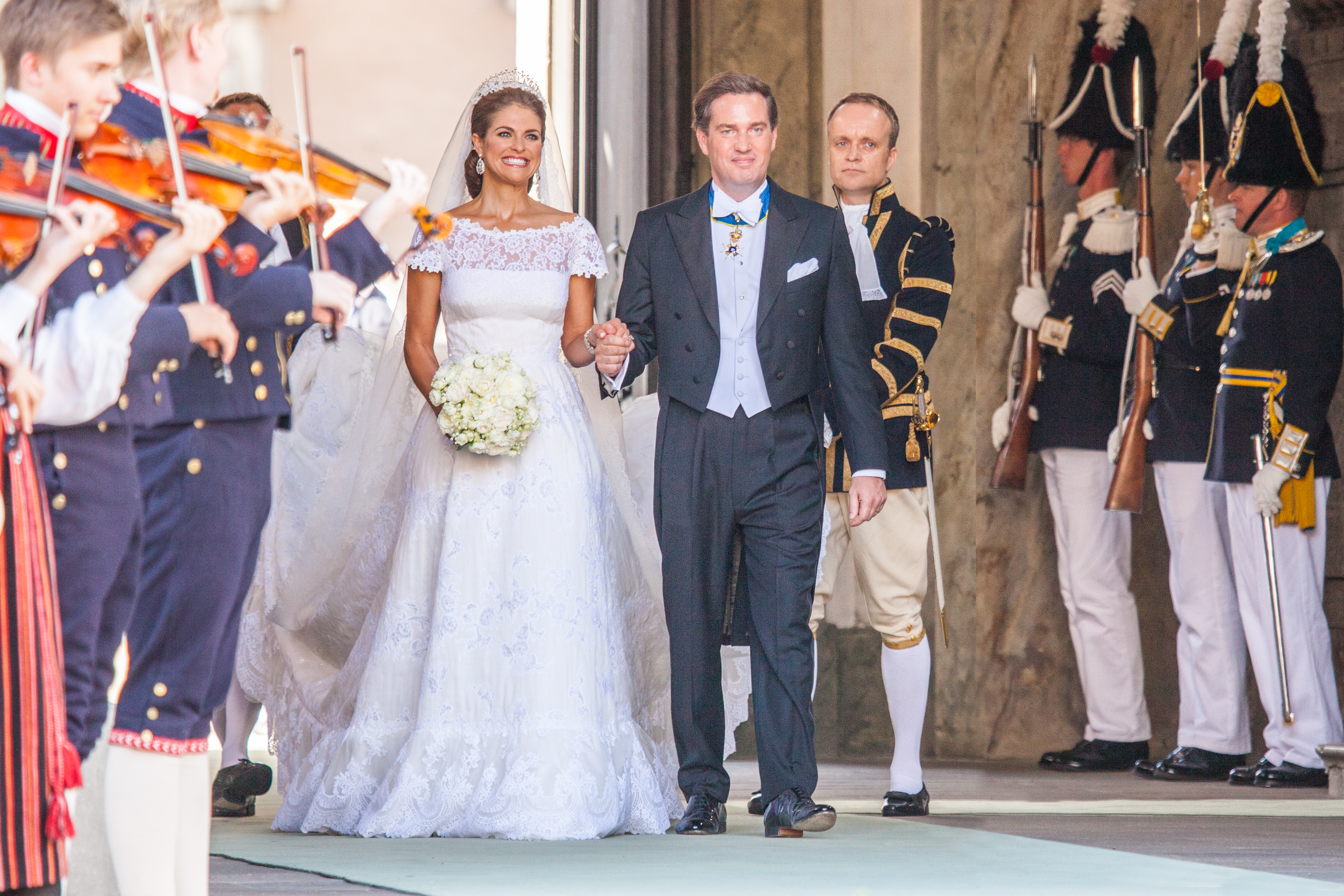 Princess Madeleine of Sweden and Christopher O´Neill wedding June 2013